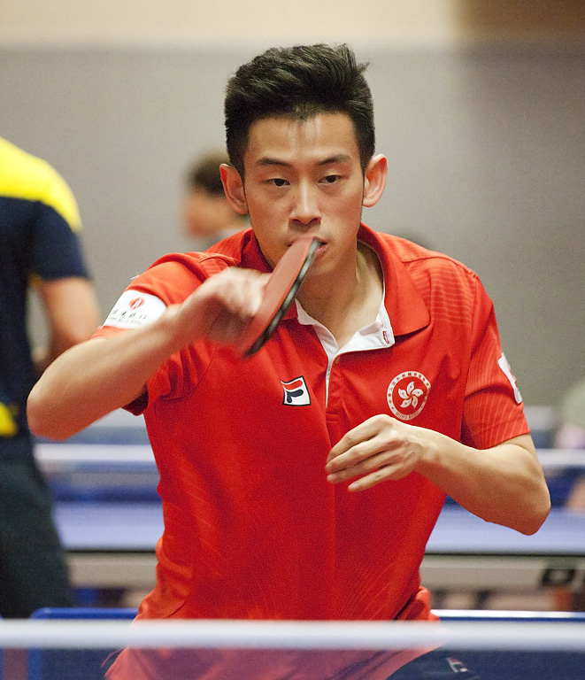 ITTF World Tour 2017 German Open, Magdeburg, Germany, 7 Nov 2017 - 12 Nov 2017, Wong Chun Ting